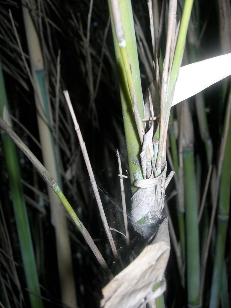 Thamnocalamus tessellatus